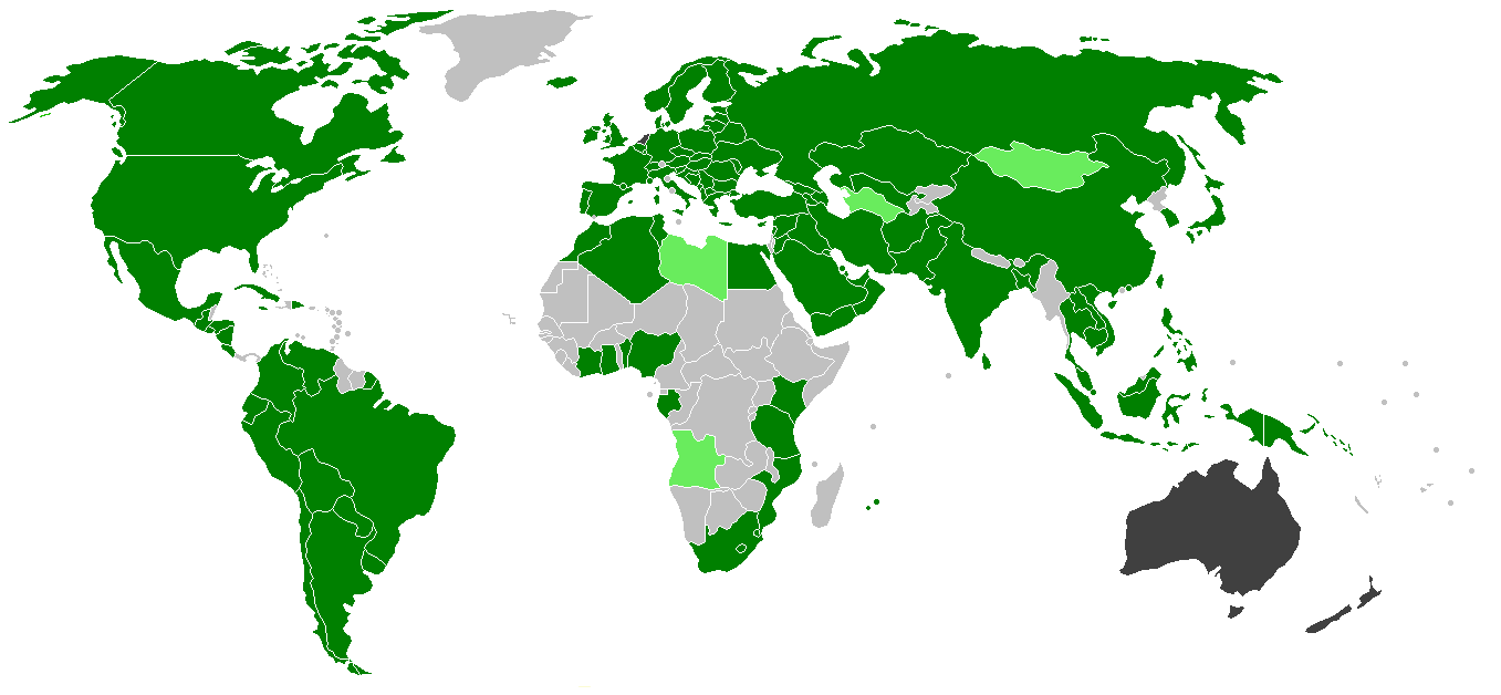 Hypermarkets around the world Hypermarkets are available Hypermarkets are planned Hypermarkets were available previously Hypermarkets are currently not available, or no information